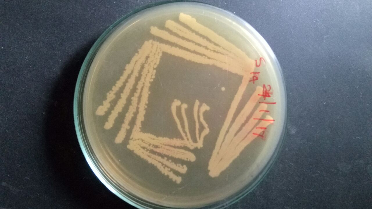 Kytococcus sedentarius culture on Zobell’s Marine Agar (Himedia) plate (quadrant streak plate).